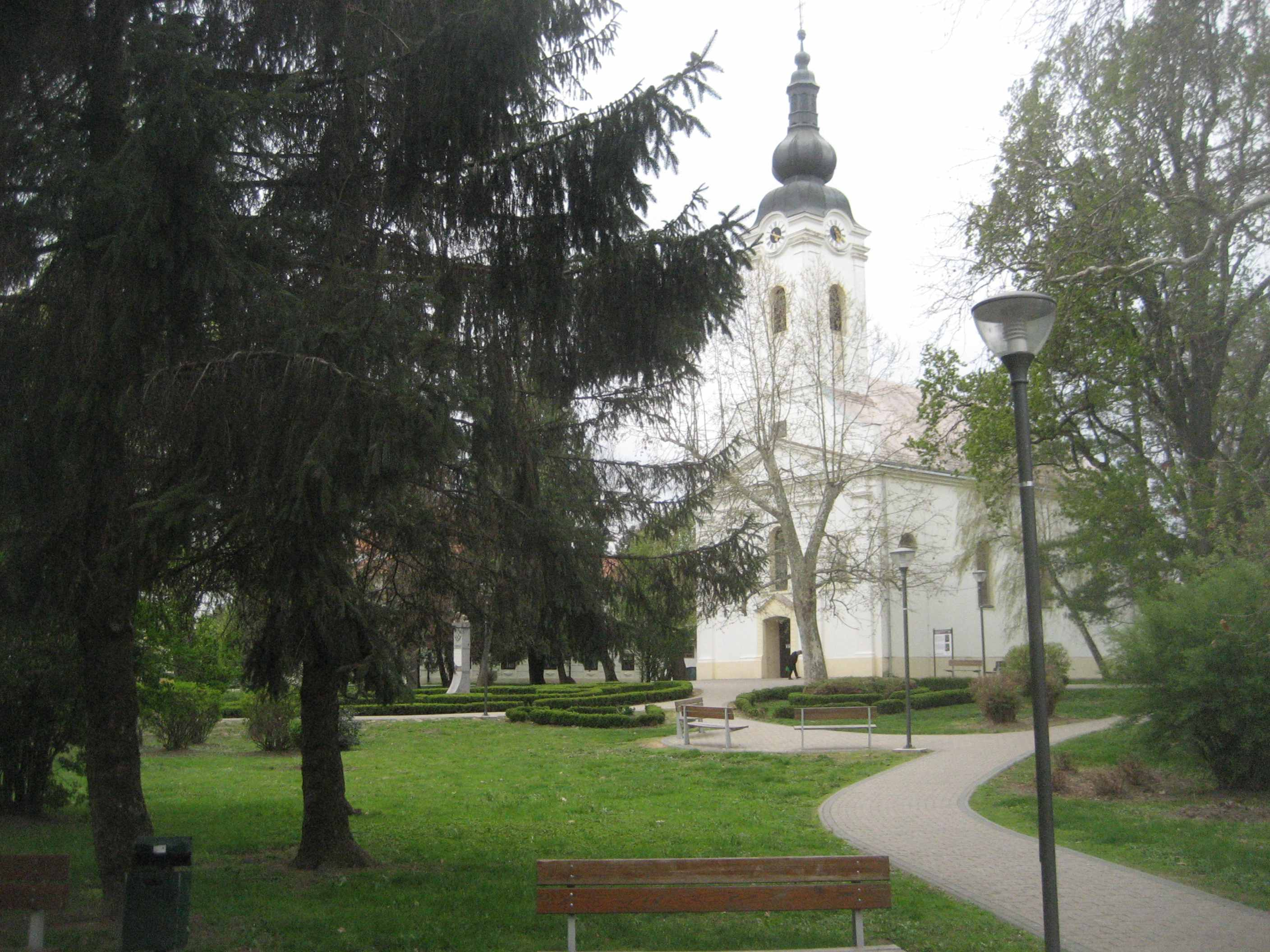 Ivanic-Grad, Croatia